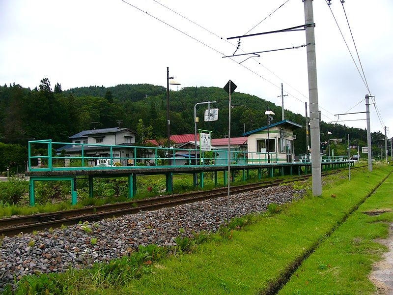 Inao Station, East Japan Railway